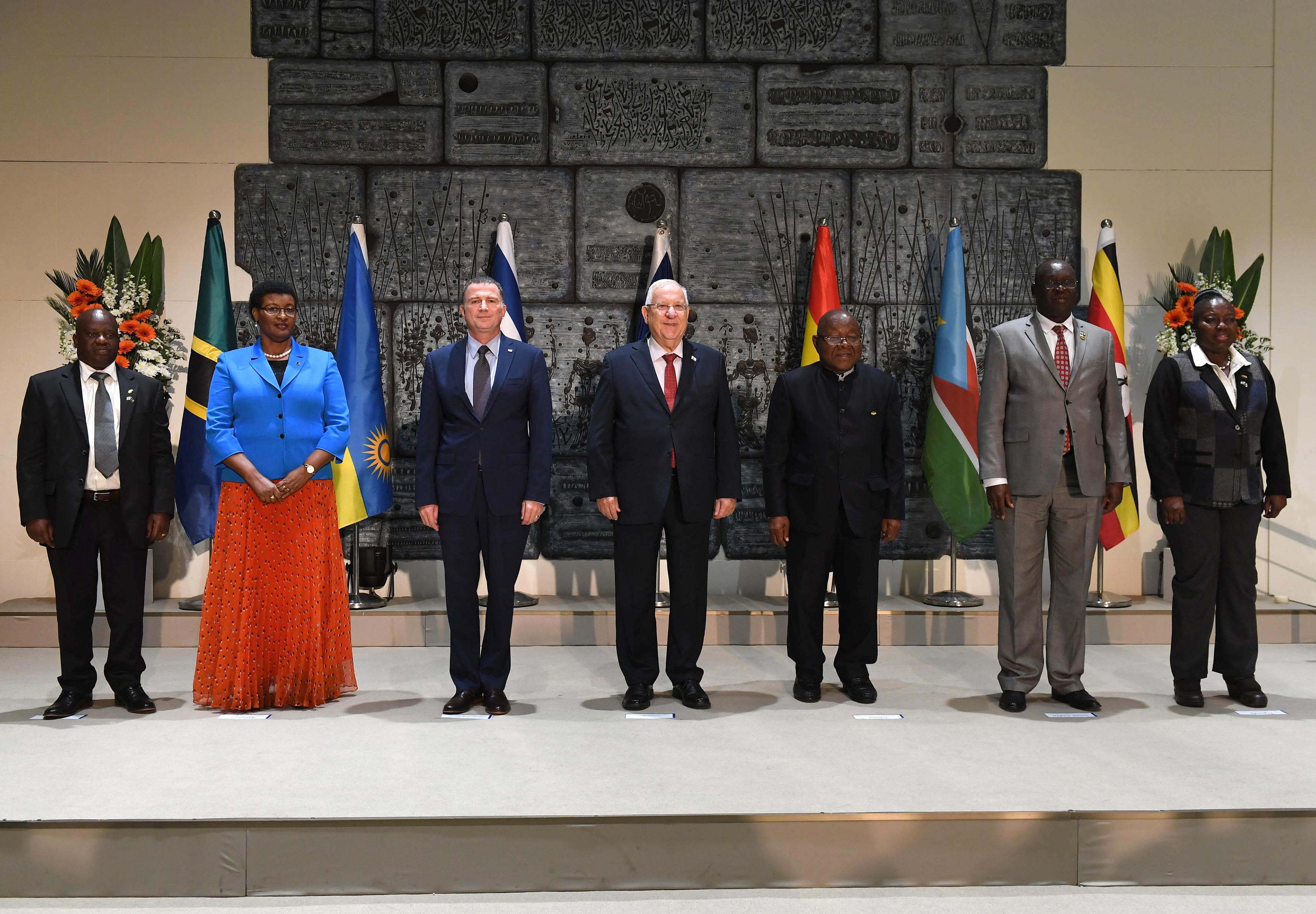 President Reuven Rivlin meeting with Parliament Chairman's from Africa, Wednesday, December 6, 2017. Photo Credit: Mark Neyman / GPO.